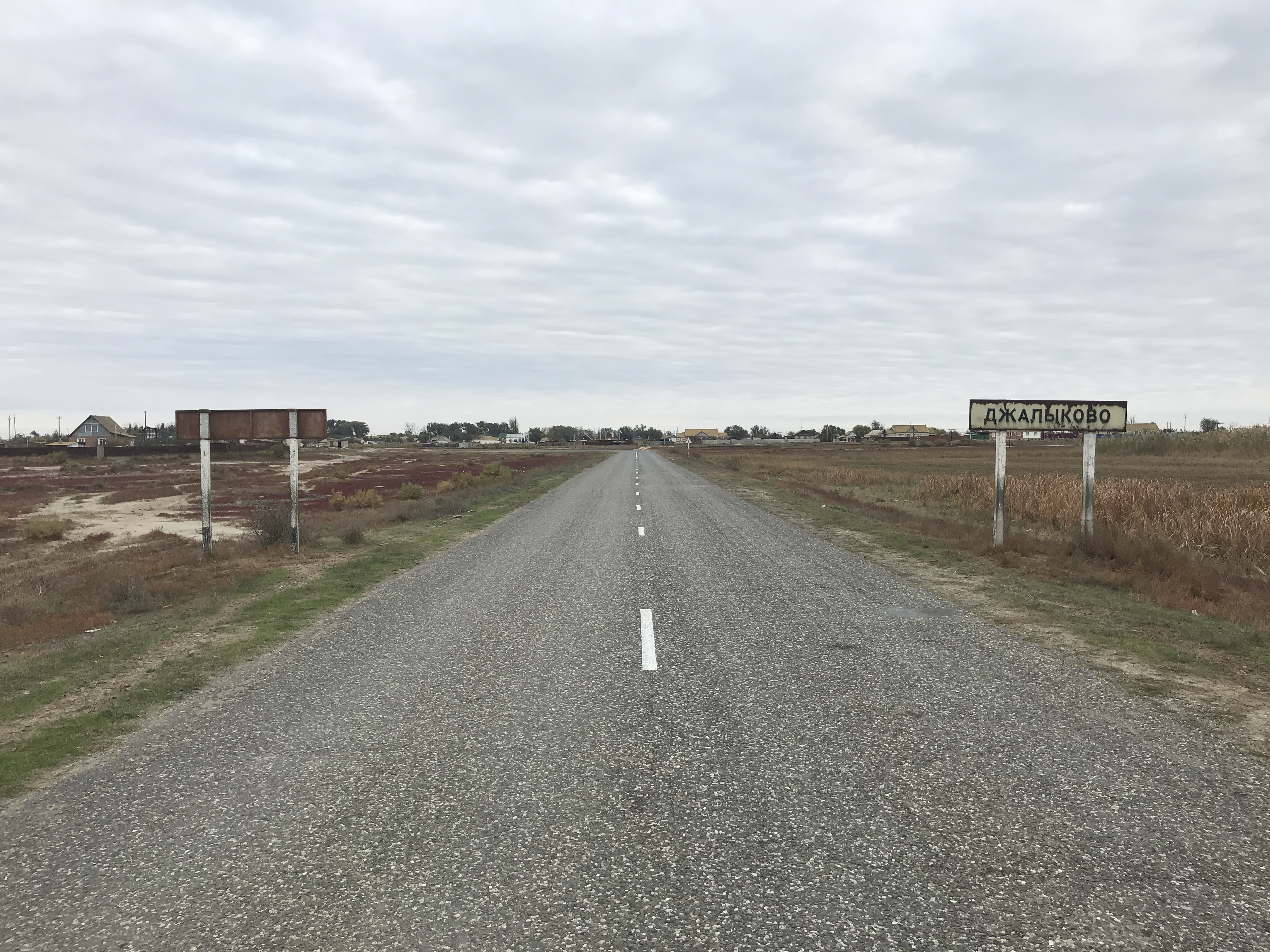 village Djalykovo, Kalmykia, Russia